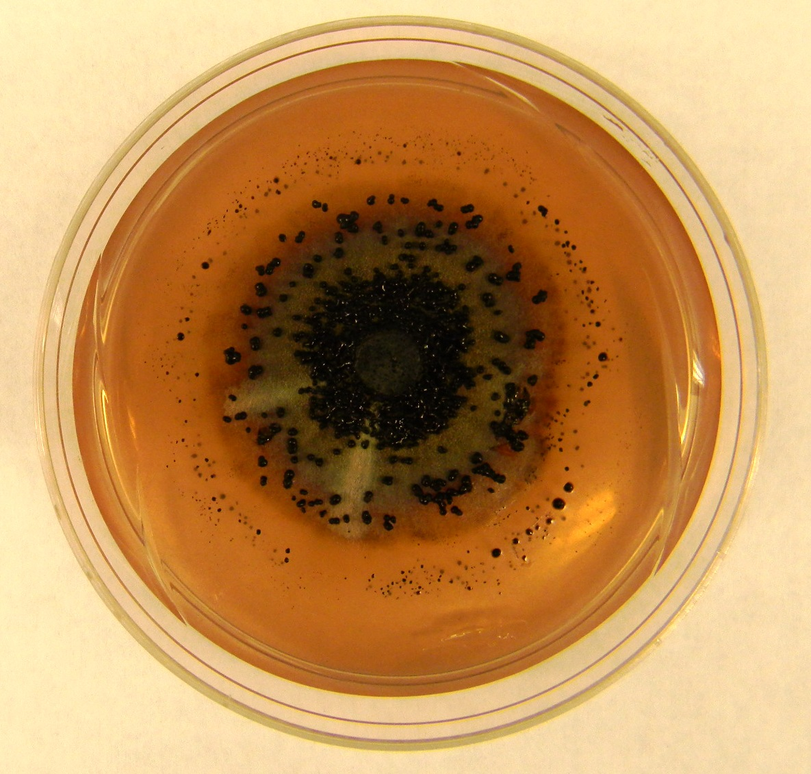 Four-week old culture of Xylona heveae growing on PDA